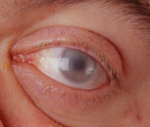 Corneal clouding occurs in many MPS disorders. This photograph shows corneal clouding in the eye of a 30-year-old male patient with MPS Type VI.